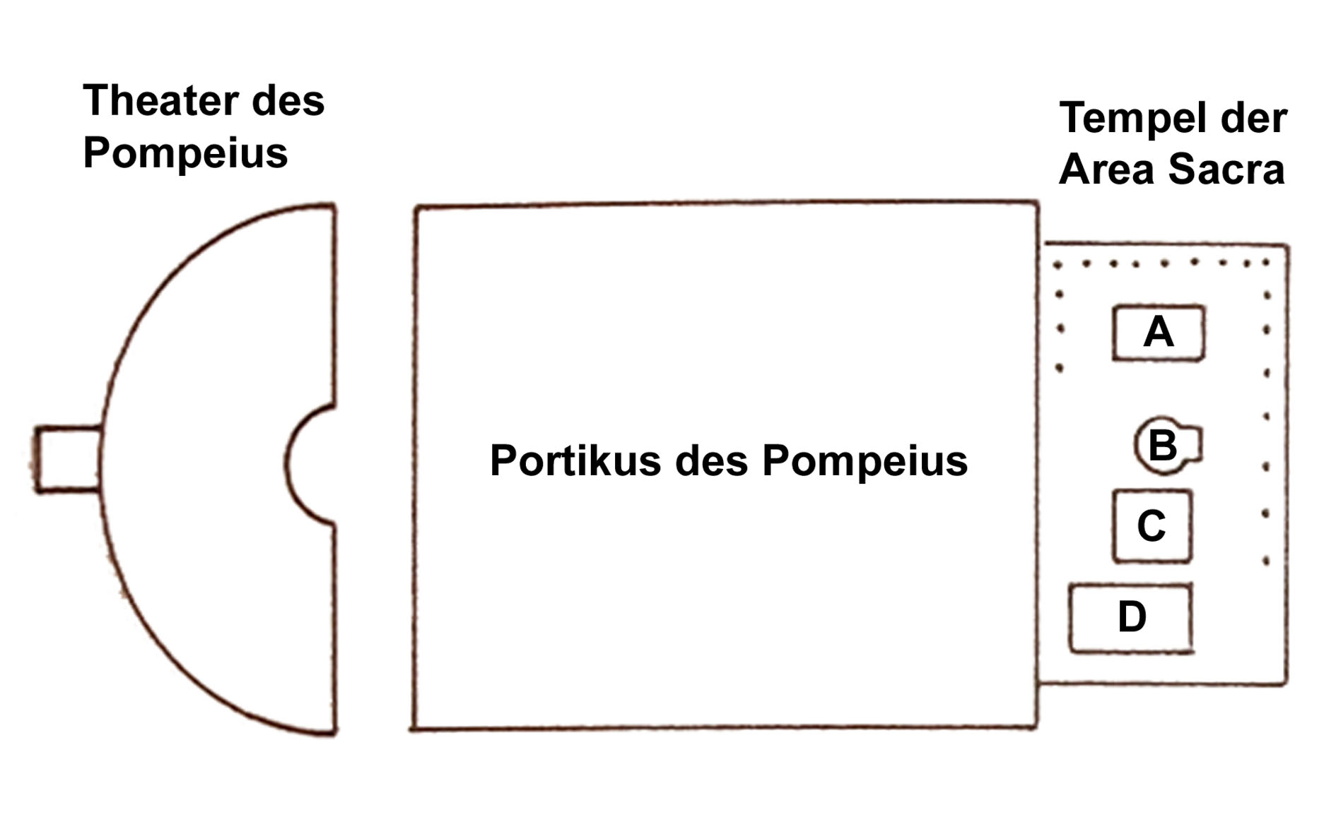 Situation of the Pompeius Theatre and the Area Sacra, Rome